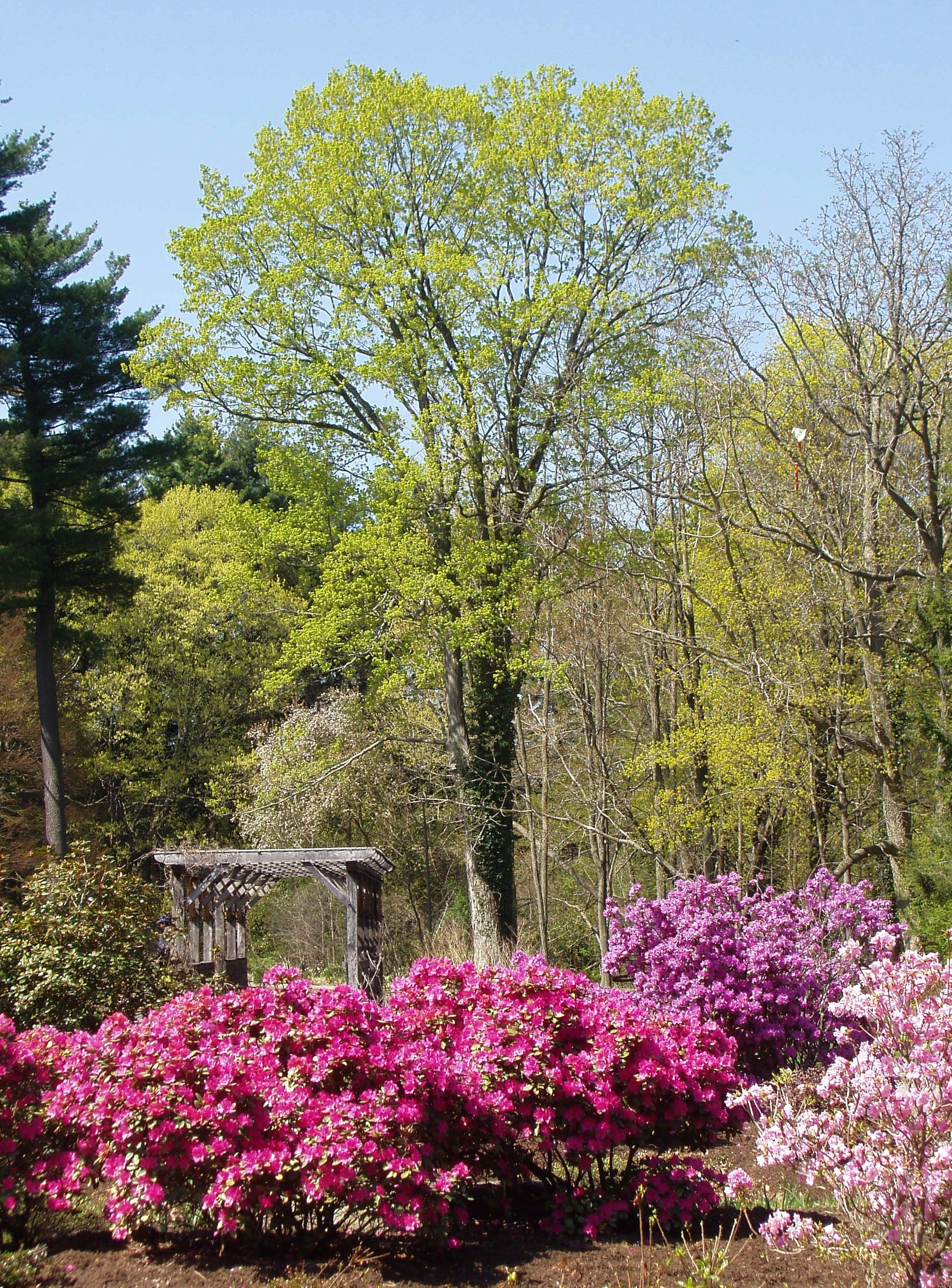 Elm Bank Horticultural Center, Wellesley, Massachusetts - Alan Payton rhododendron garden. Photograph taken by me on April 27, 2006.